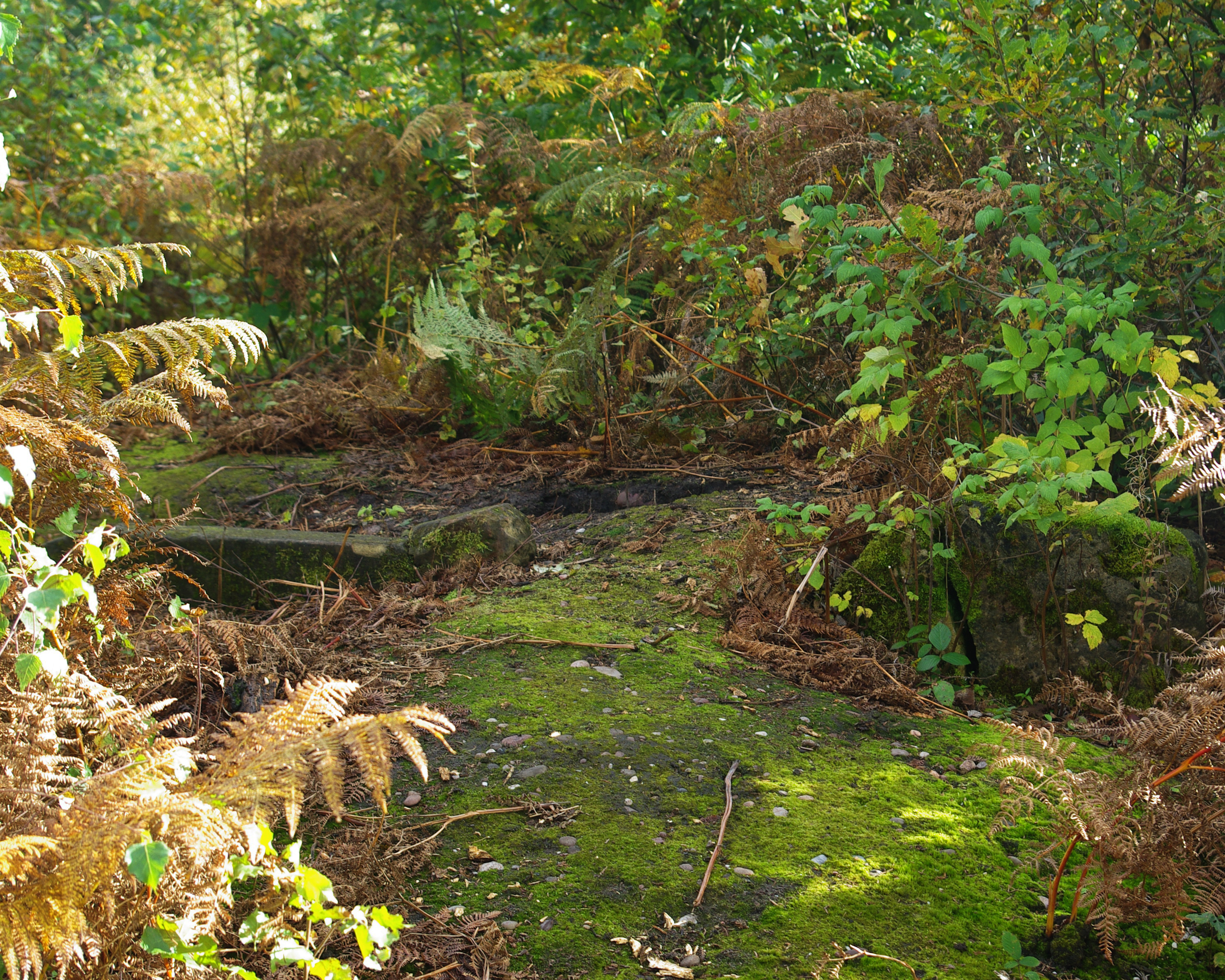 Thynghowe